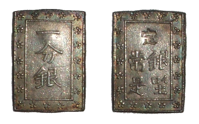 Tenpo-1bugin